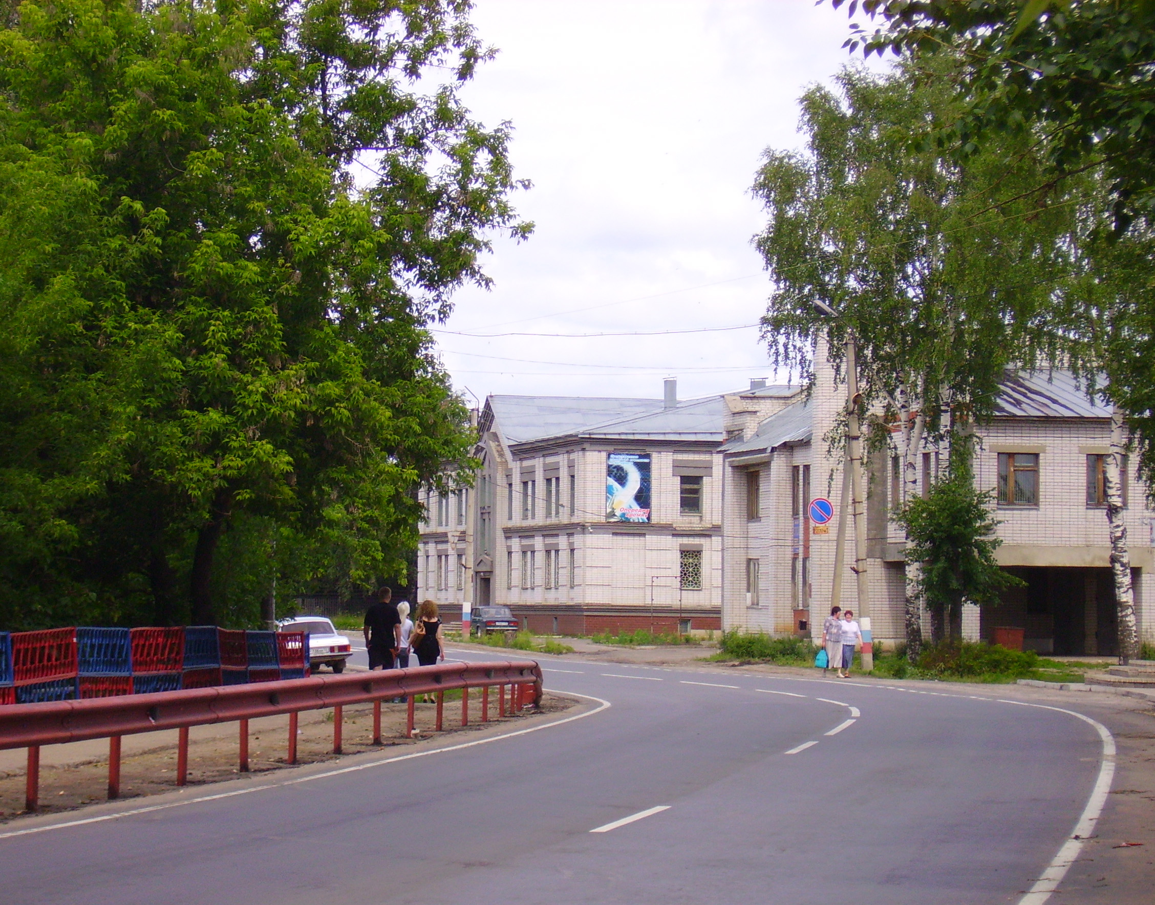 Uren. Lenin street